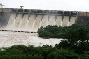 Hidkal Dam